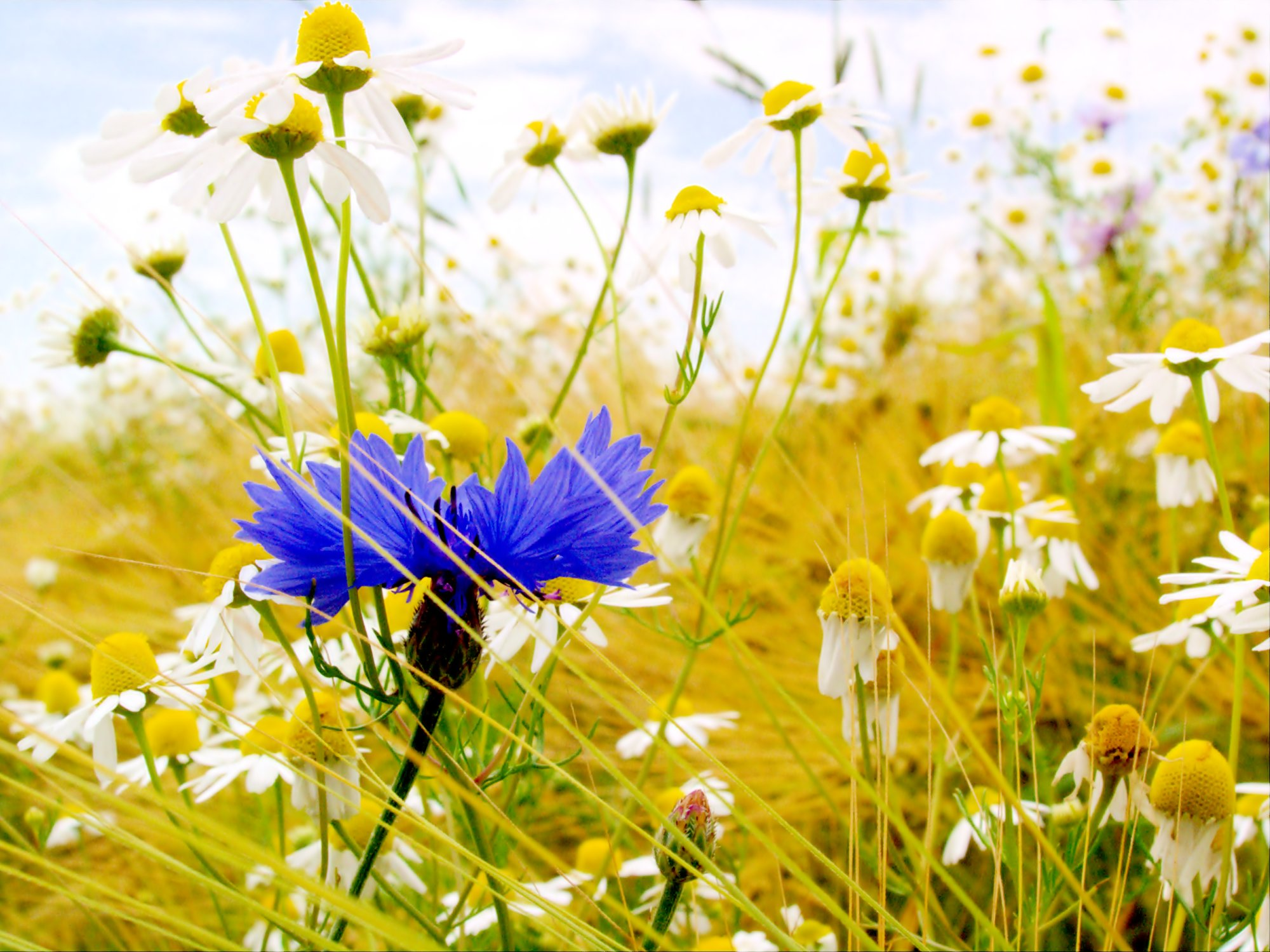 Name: Centaurea cyanus and chamomile in a field of barleycorn. Family: Asteraceae. Location: Münster, NRW, Germany